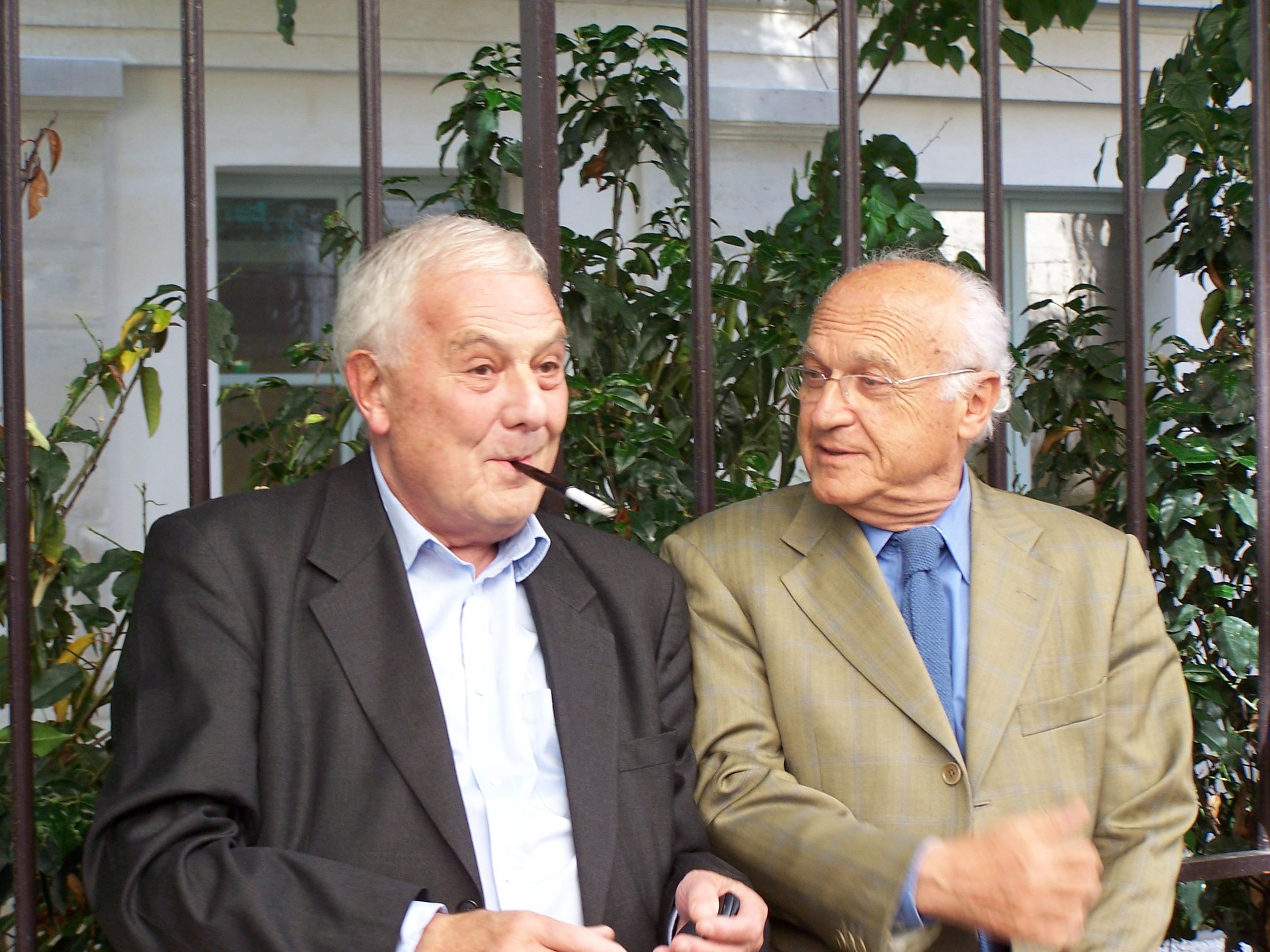 French writer Philippe Sollers (left) and french historian and editor Pierre Nora (right) at the inauguration of rue Gaston-Gallimard